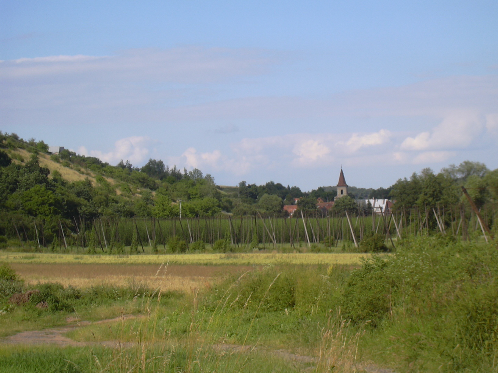 Church tower and hop gardens in Libořice (view from the south-west)